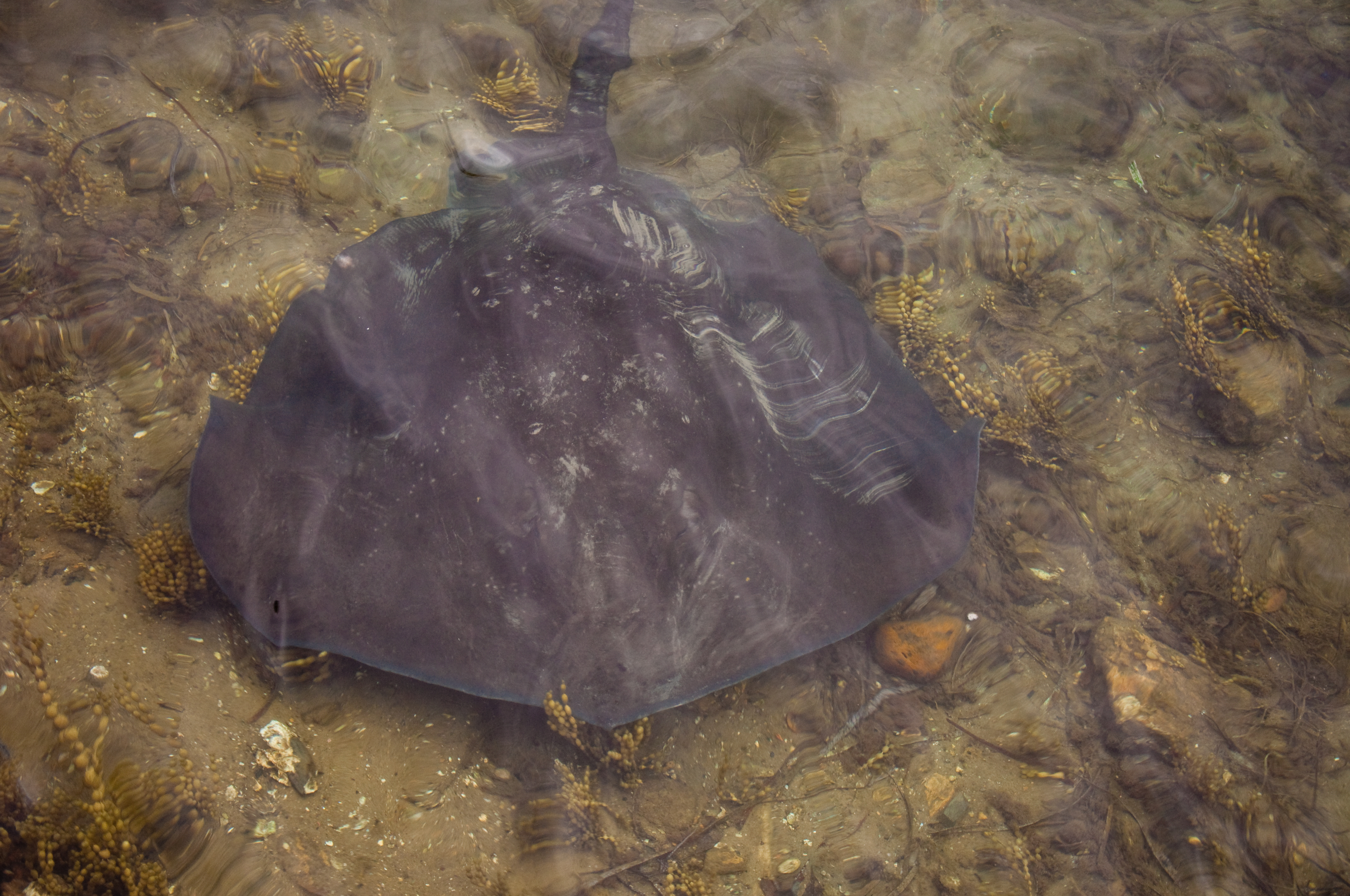 Short-tail stingray (Dasyatis brevicaudata) off Narooma, New South Wales, Australia.